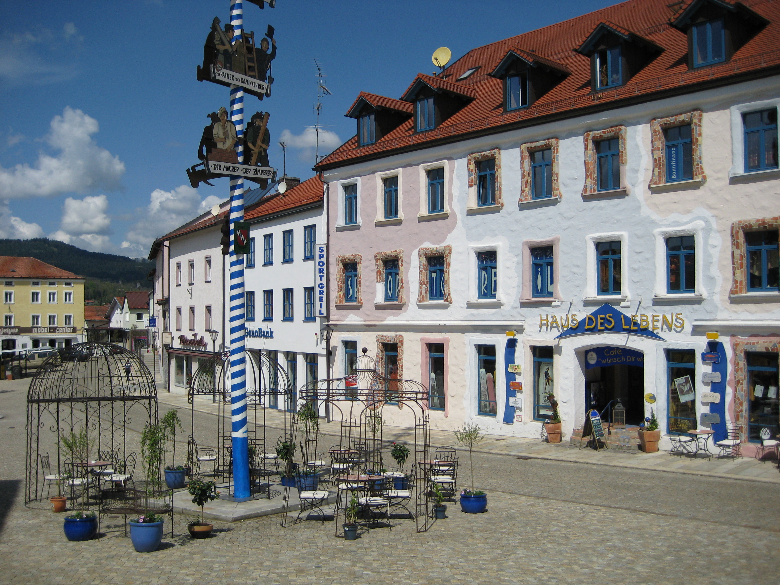 Town center of Ruhmannsfelden, Lower Bavaria